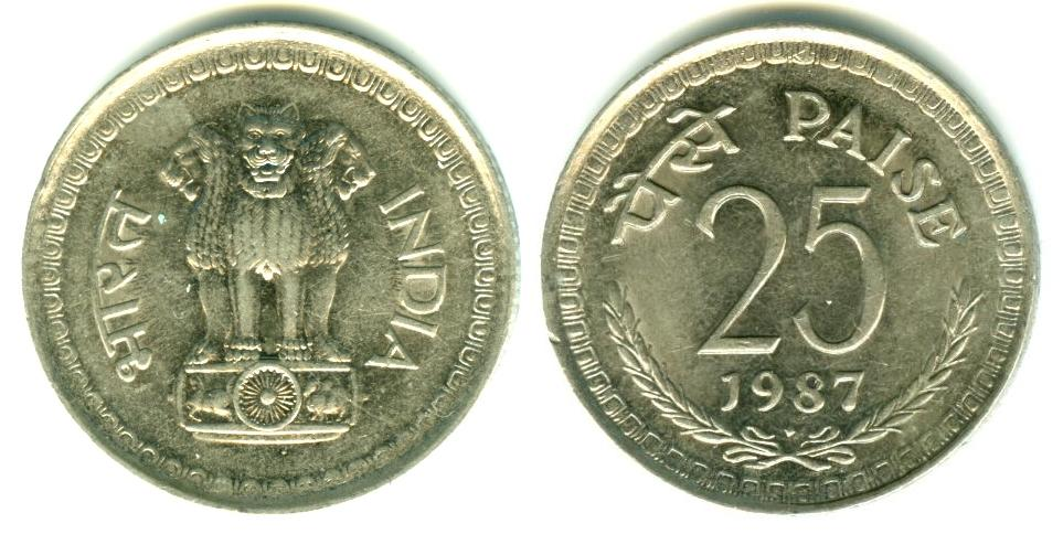 India 25 paise 1987 KM 49.5 minted by the Mumbai mint.